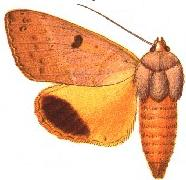 PLATE CCXIV.